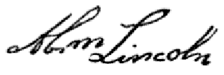 signature of Captain Abraham Lincoln, grandfather of President Abraham Lincoln